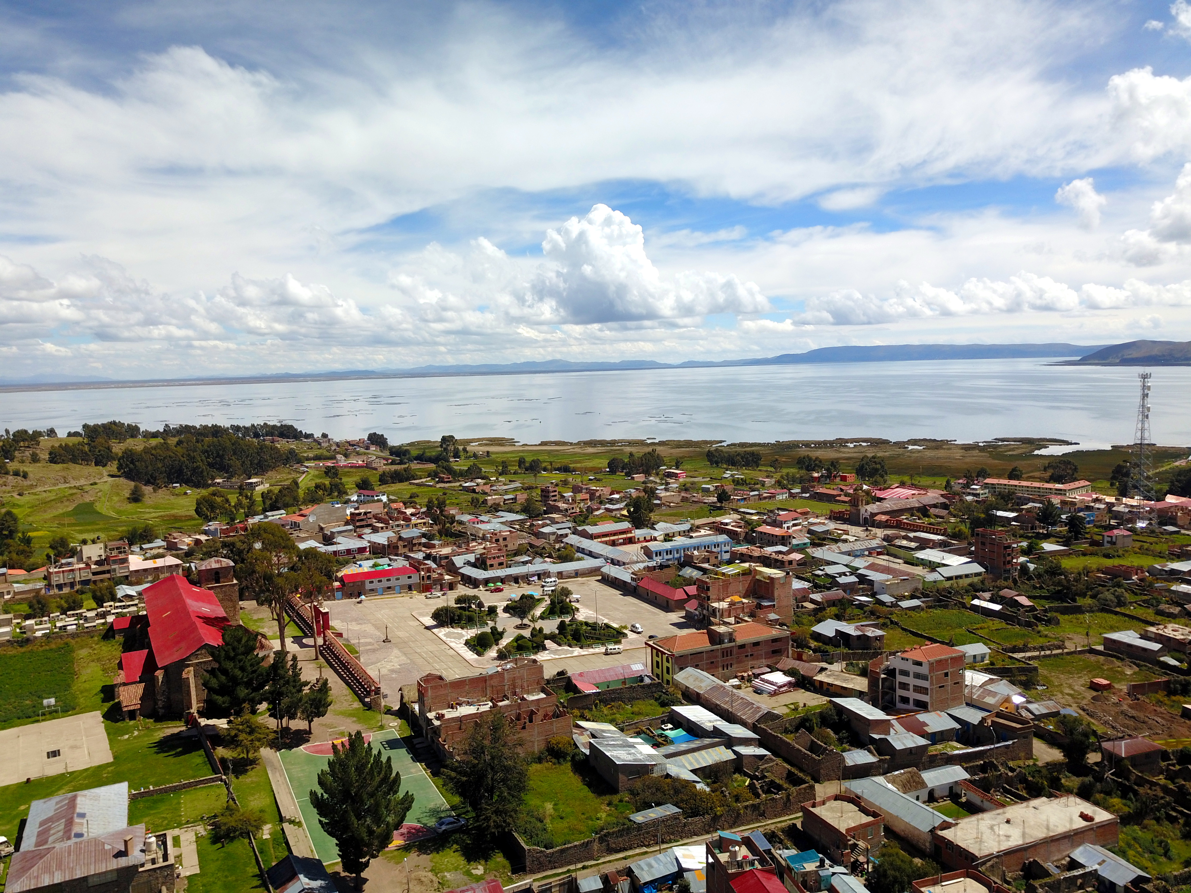 Chucuito, a village on the banks of Lake Titicaca, is located about 20 km from Puno.